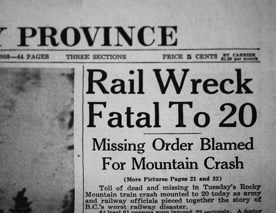 Photo of Daily Province (Vancouver) newspaper headline related to the Canoe River train crash of 1950